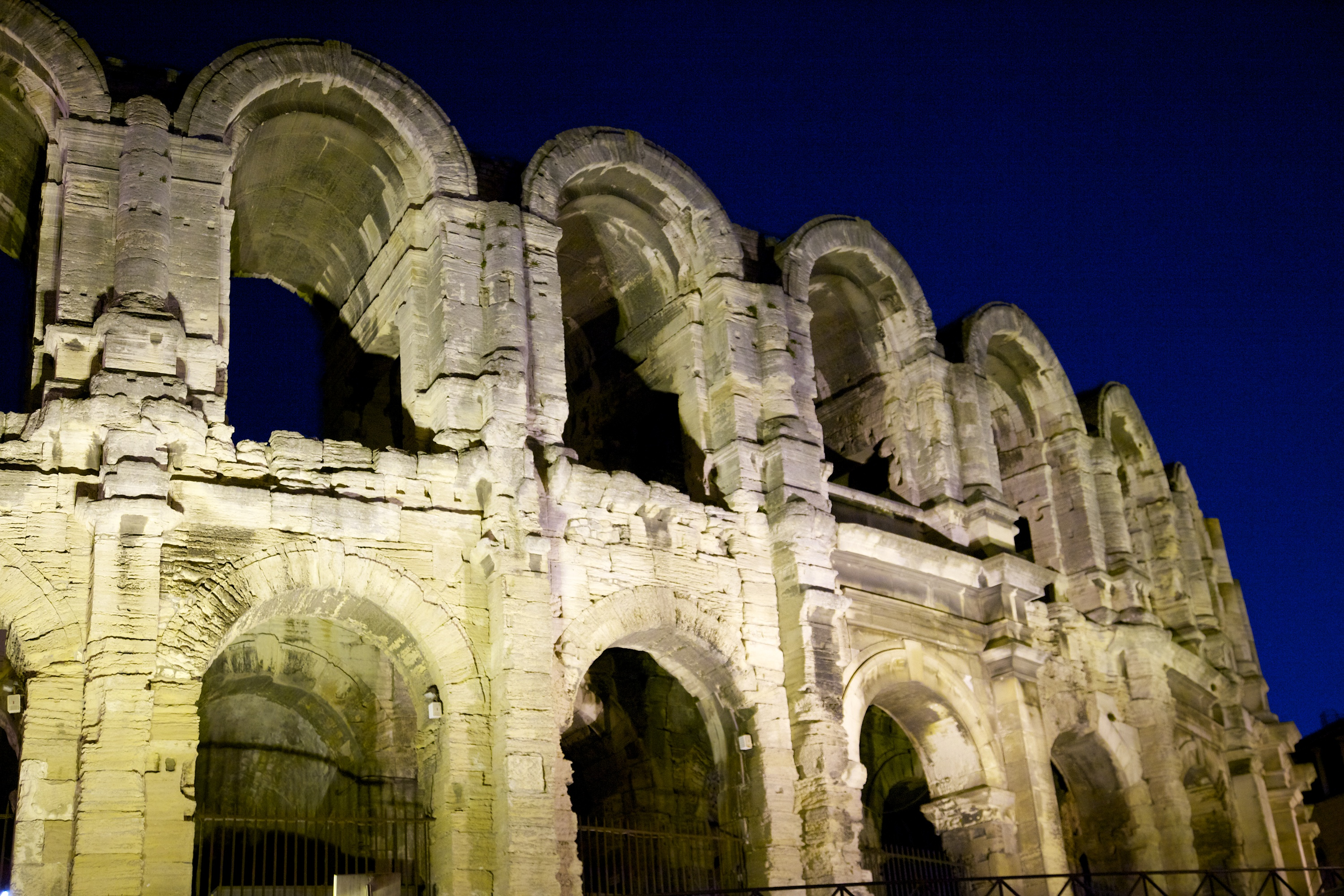 Arles Roman arena(fFirst century) .